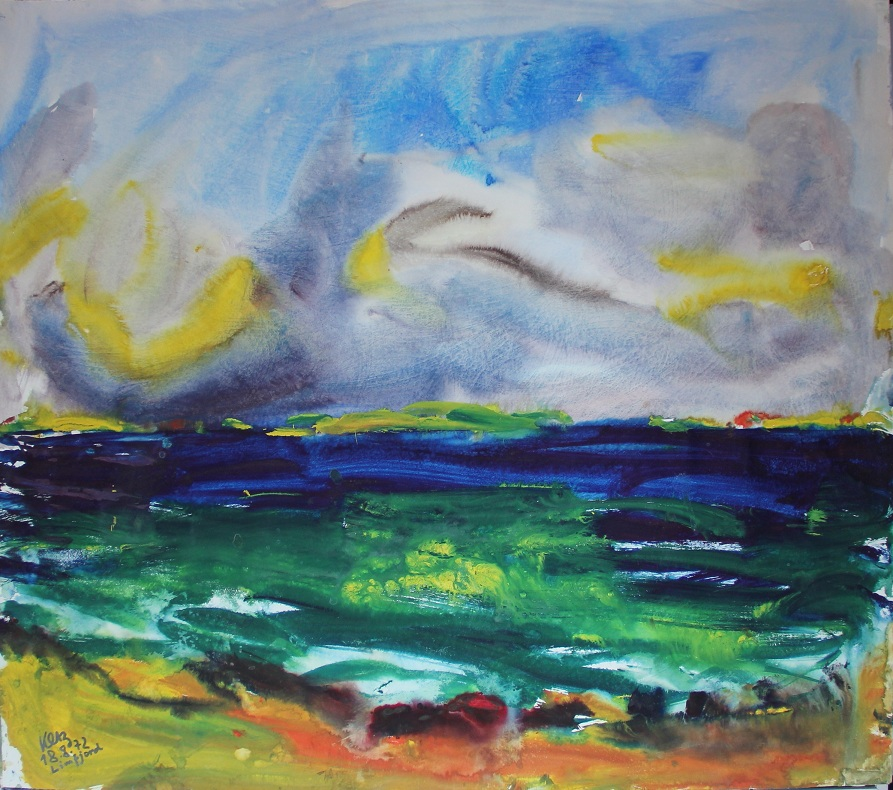 Aquarell 70 x 80 cm